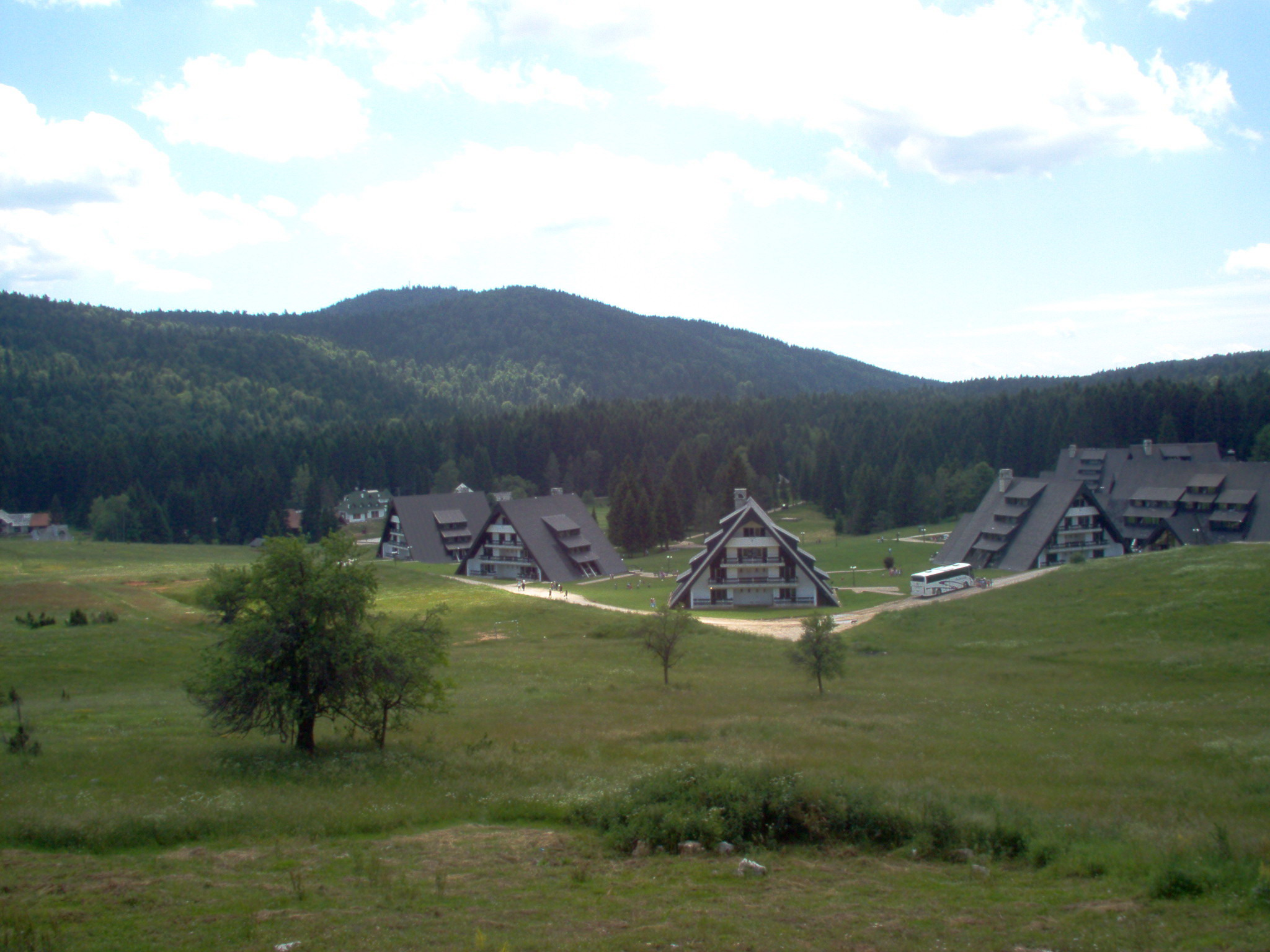 Mitrovac, near Bajina Bašta, Serbia